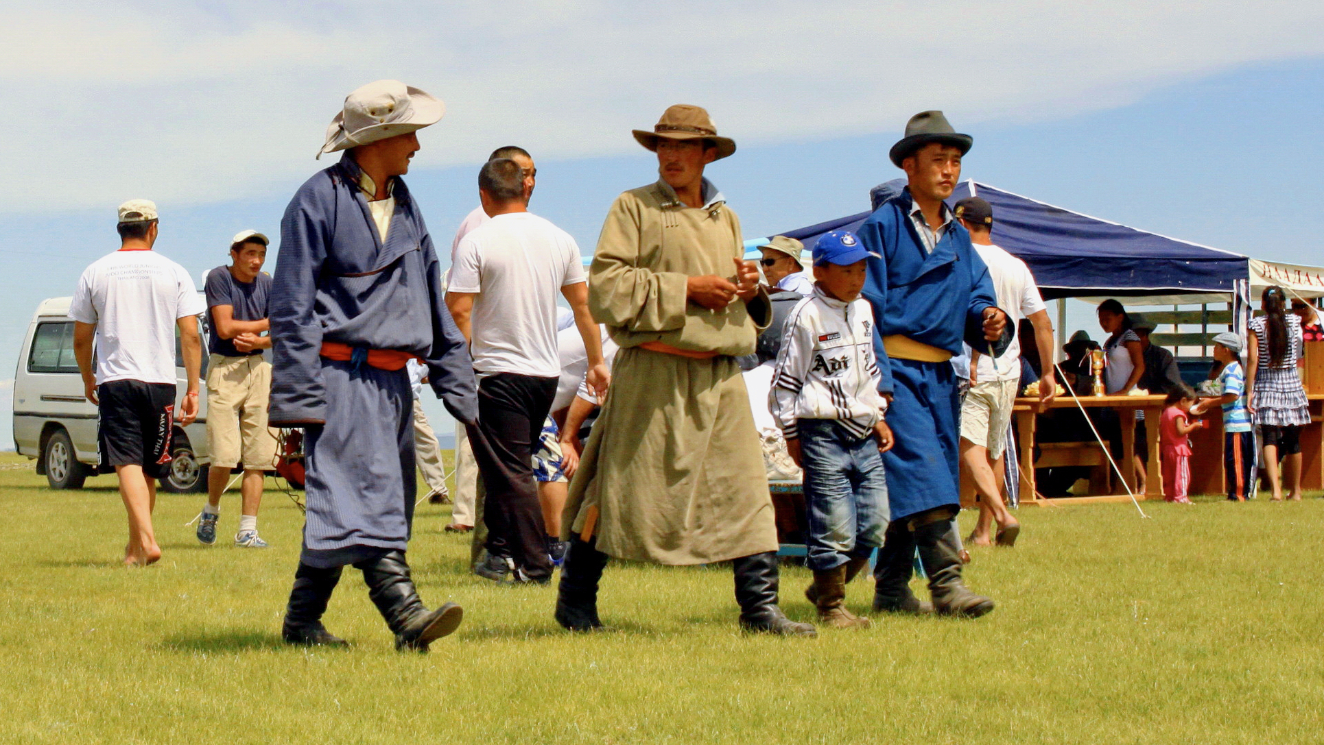 Men in traditional Mongolian costumes (deel). Before starting of a local Naadam festival. Kharkhorin, Övörkhangai Province, Mongolia.